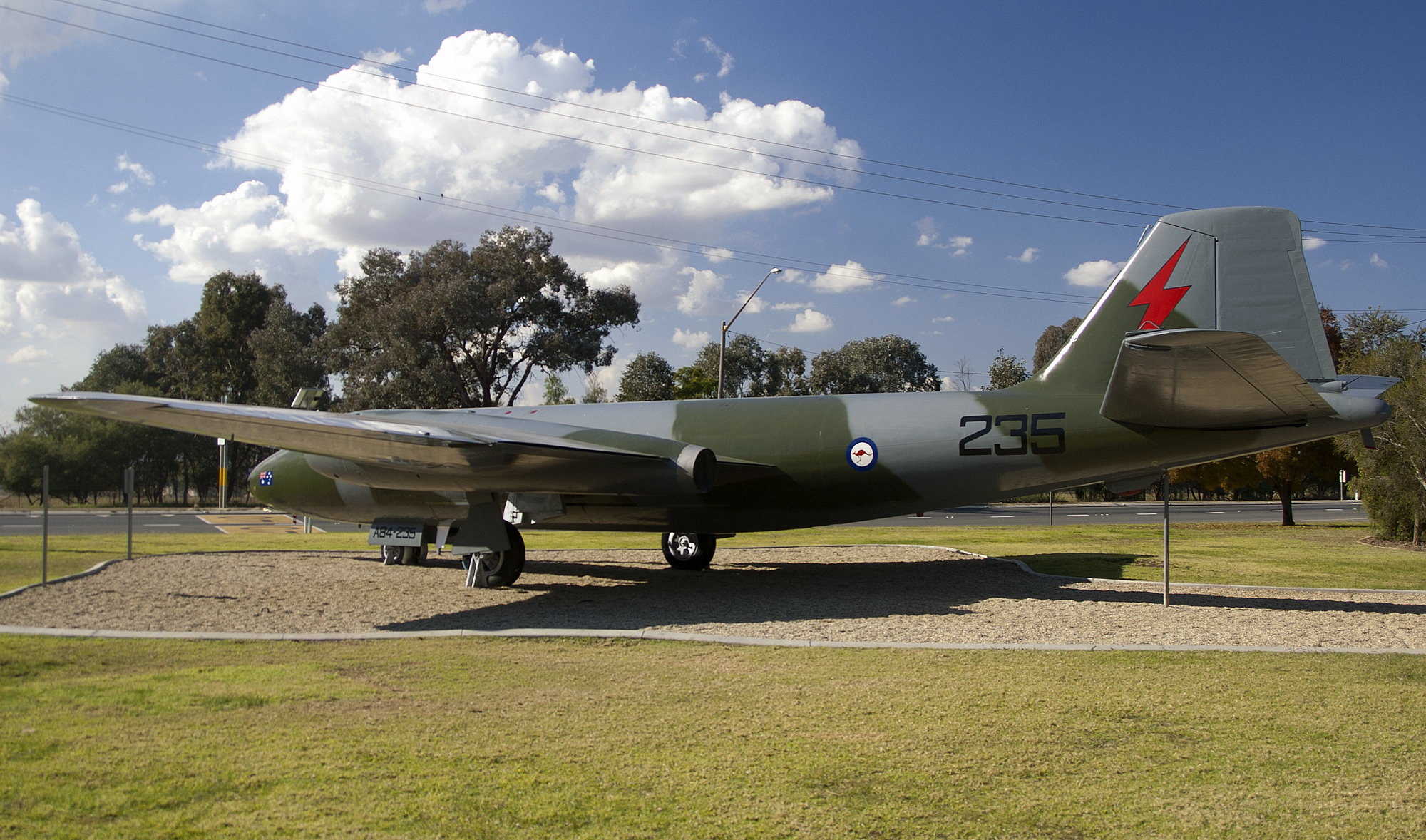 A84-235 Mk 20 English Electric Canberra at RAAF Base Wagga, after the completion of restoration work in April and May 2011.